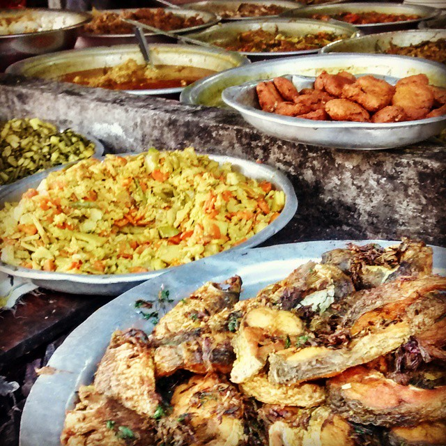 Fish-lunch. Some lunch foods in Bangladesh.